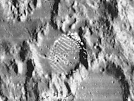 Lindsay lunar crater - Lunar Orbiter IV image IV 089 H3